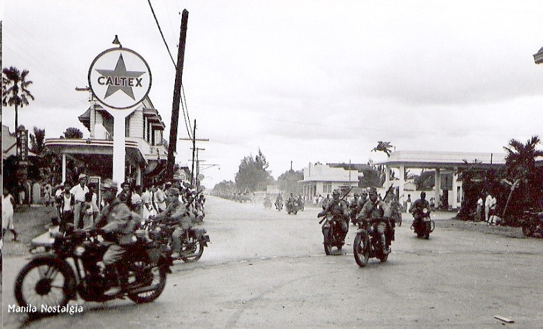 Imperial Japanese Army Enters Manila on Motorcycles (1942) - Early in the morning of January 2, 1942, the Japanese entered Manila after the city surrendered and declared "Open City" to prevent further destruction. They came up the boulevards in the predawn glow from the bay, riding on bicycles and on tiny motorcycles, their little flags with the one red ball looking like children’s pennants. They came without talk and in good order, the ridiculous pop-popping of their one-cylinder cycles loud in the silent city. “More Than Meets the Eye”, Carl Mydans.